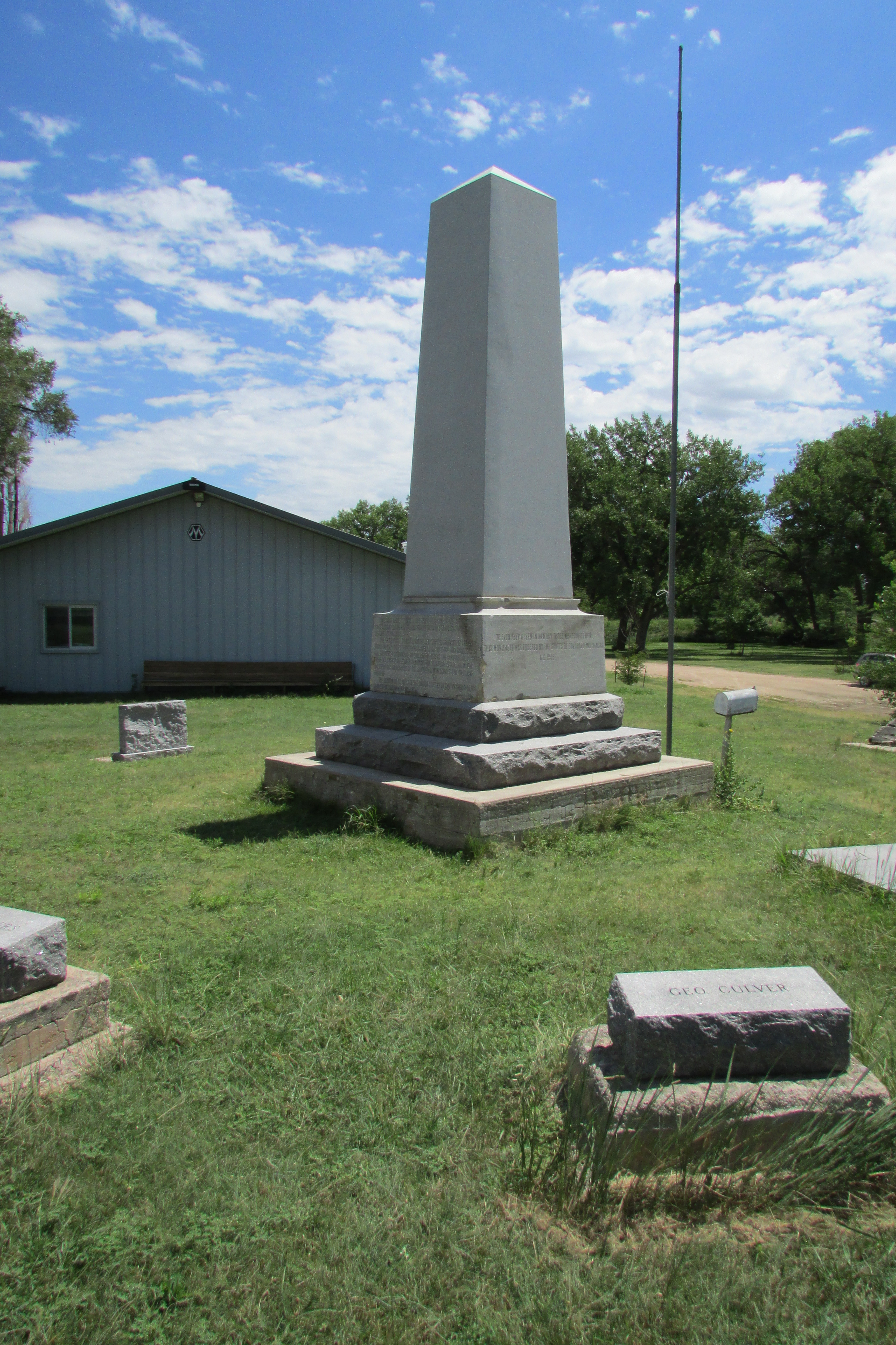 Memorial to the men who fought at Beecher Island near Wray, Colorado.